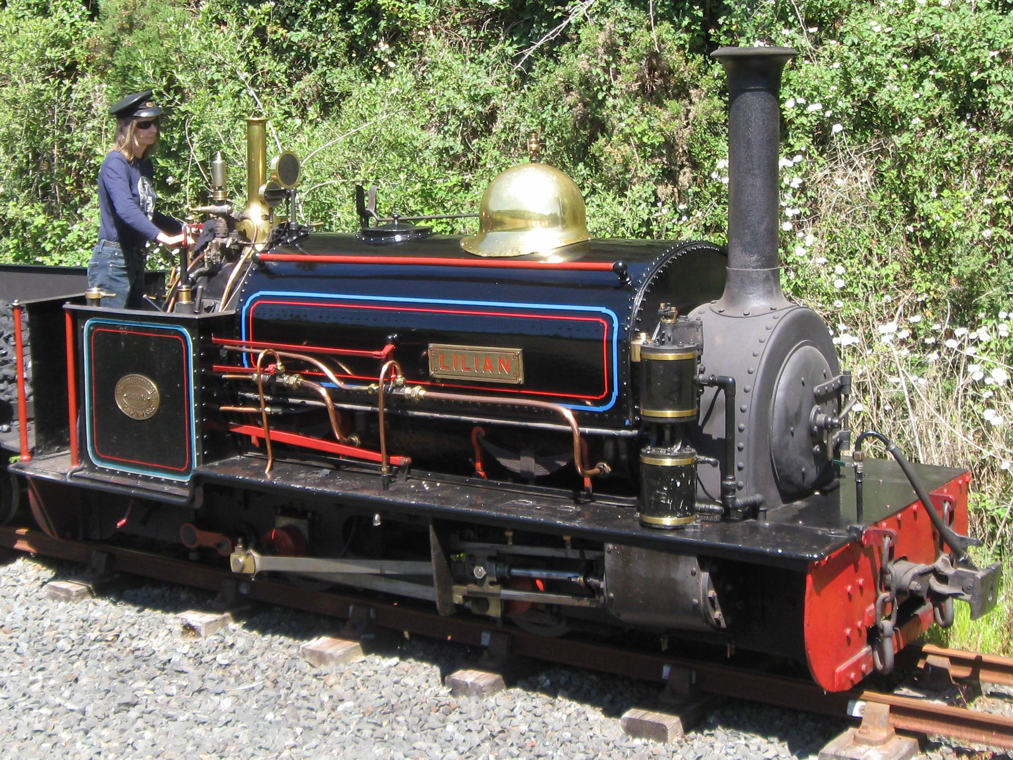 Quarry Hunslet Lilian (No. 317, 1883) at Launceston Steam Railway